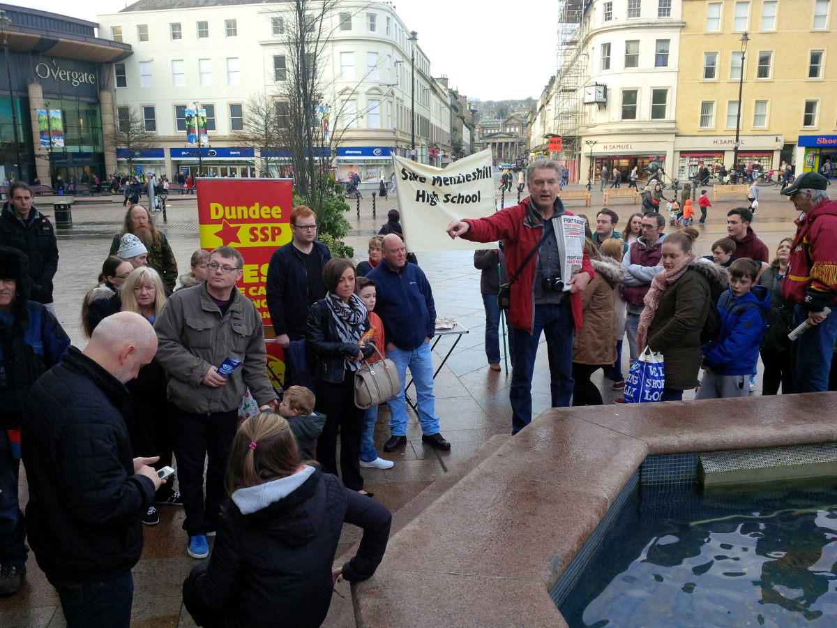 Demonstration outside Dundee City Chambers, over the proposed closure of Menzieshill High School in Dundee